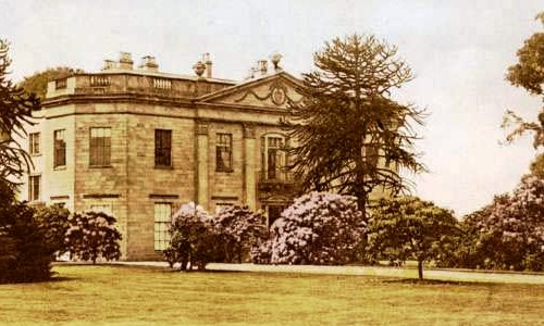 Shipley Hall without later portico Postcard by E. Truman, 147 Bath Street, Ilkeston.